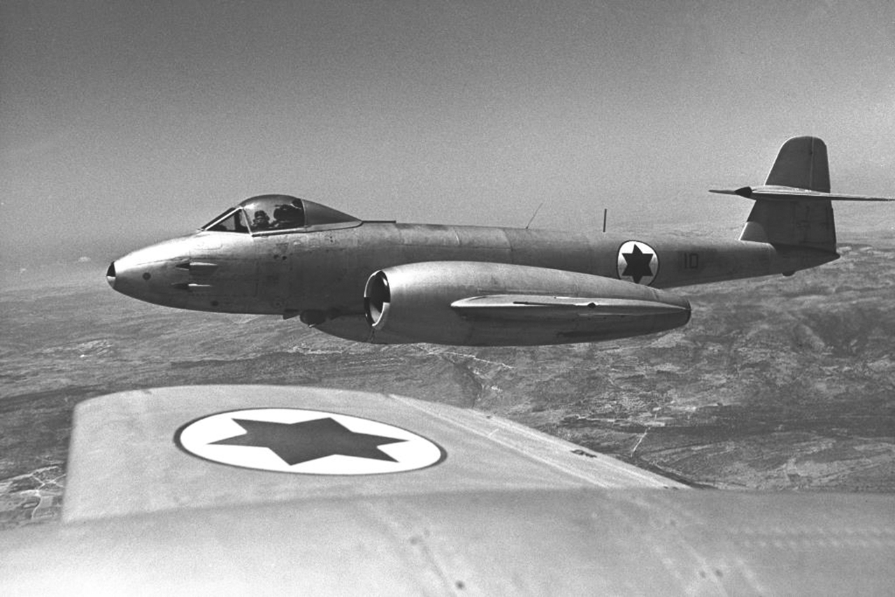 Air-to-air with an Israeli Air Force Gloster Meteor F.8